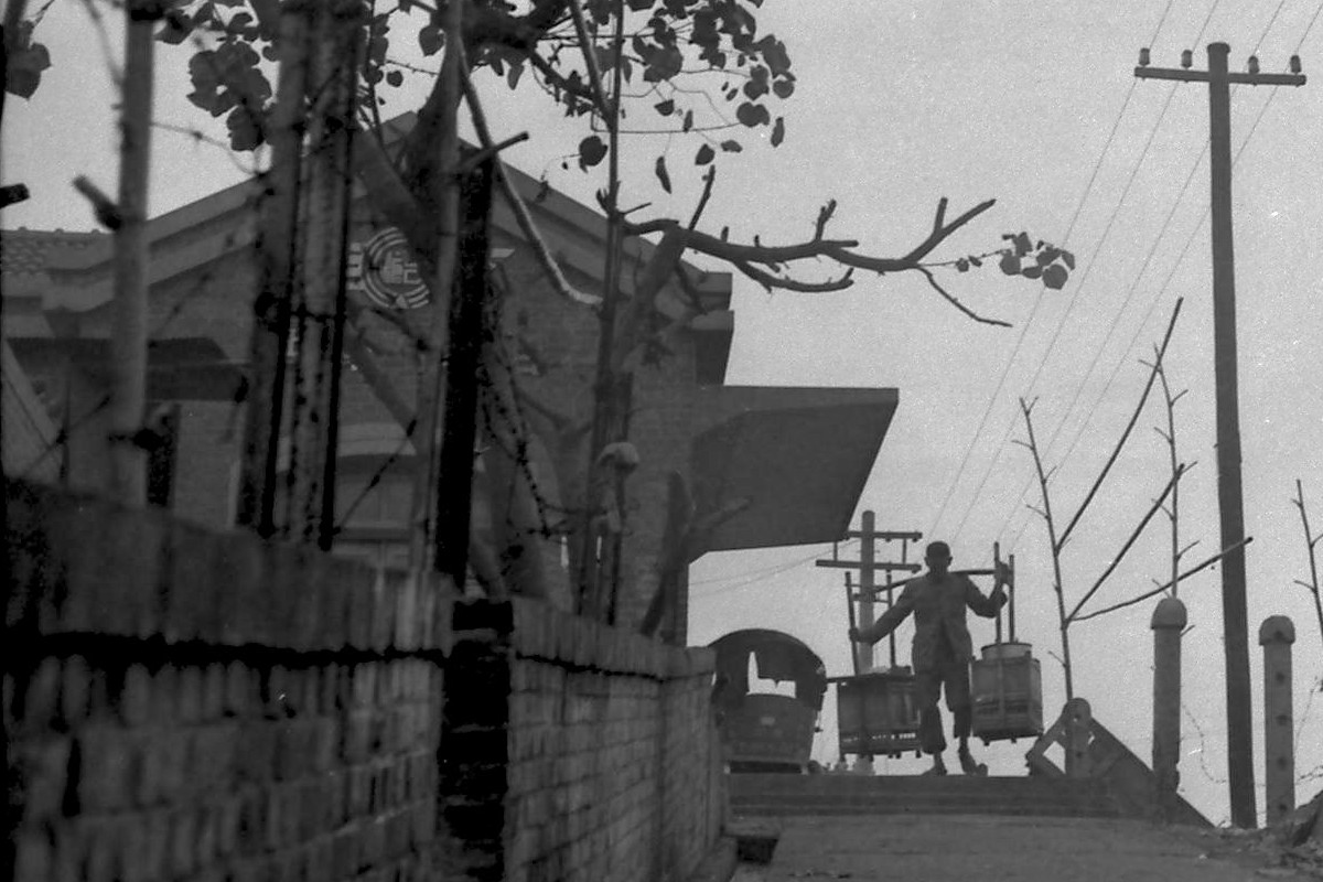 Taiwan Sugar Railways Tainan Station 1963